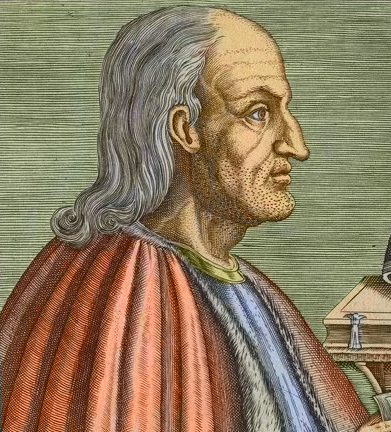 A colorized portait of Anselm of Canterbury